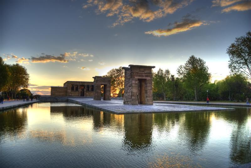 Temple of Debod in Madrid (Spain).